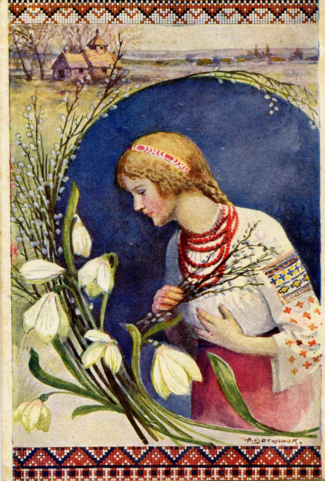 Old Russian Easter Postcard